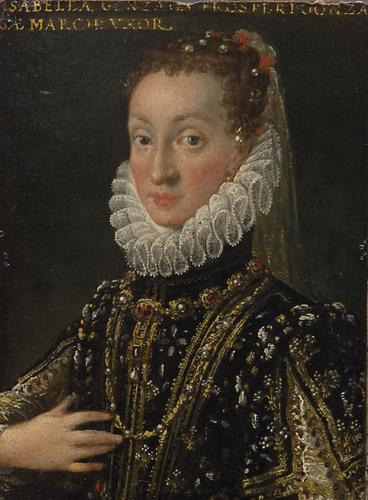 Portrait of Isabella Gonzaga (c.1555 - ?), wife of Prospero Gonzaga